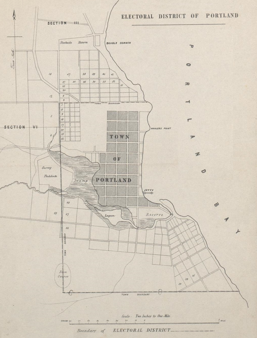 Electoral district of Portland, Victoria. Legislative Council 1851. Modified from 1855 map to show the boundary in 1851